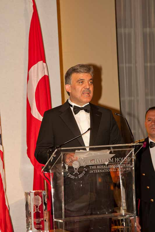 Chatham House Prize 2010: President Gül